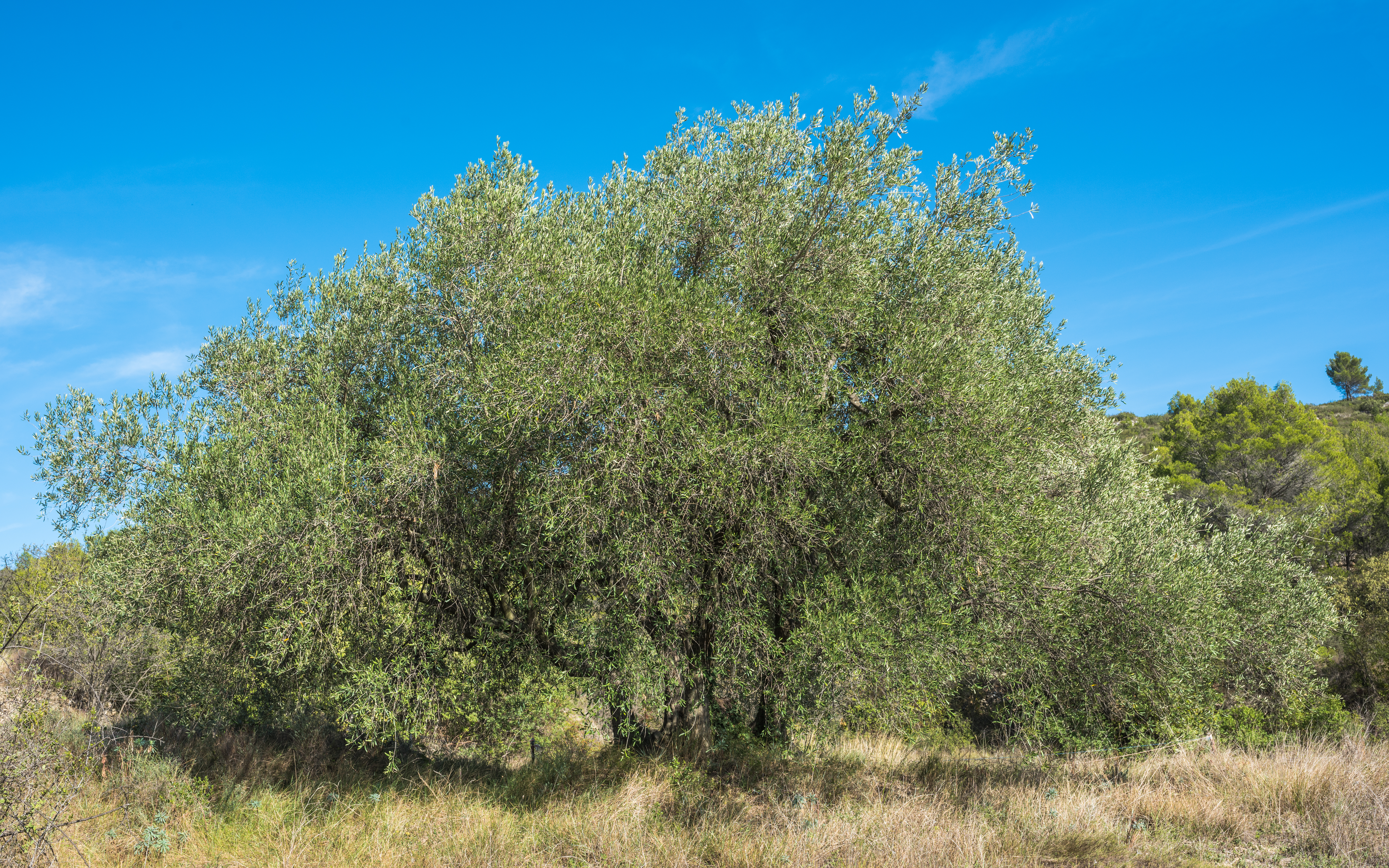 Olea europaea (Olive). In a field in border of a trail.